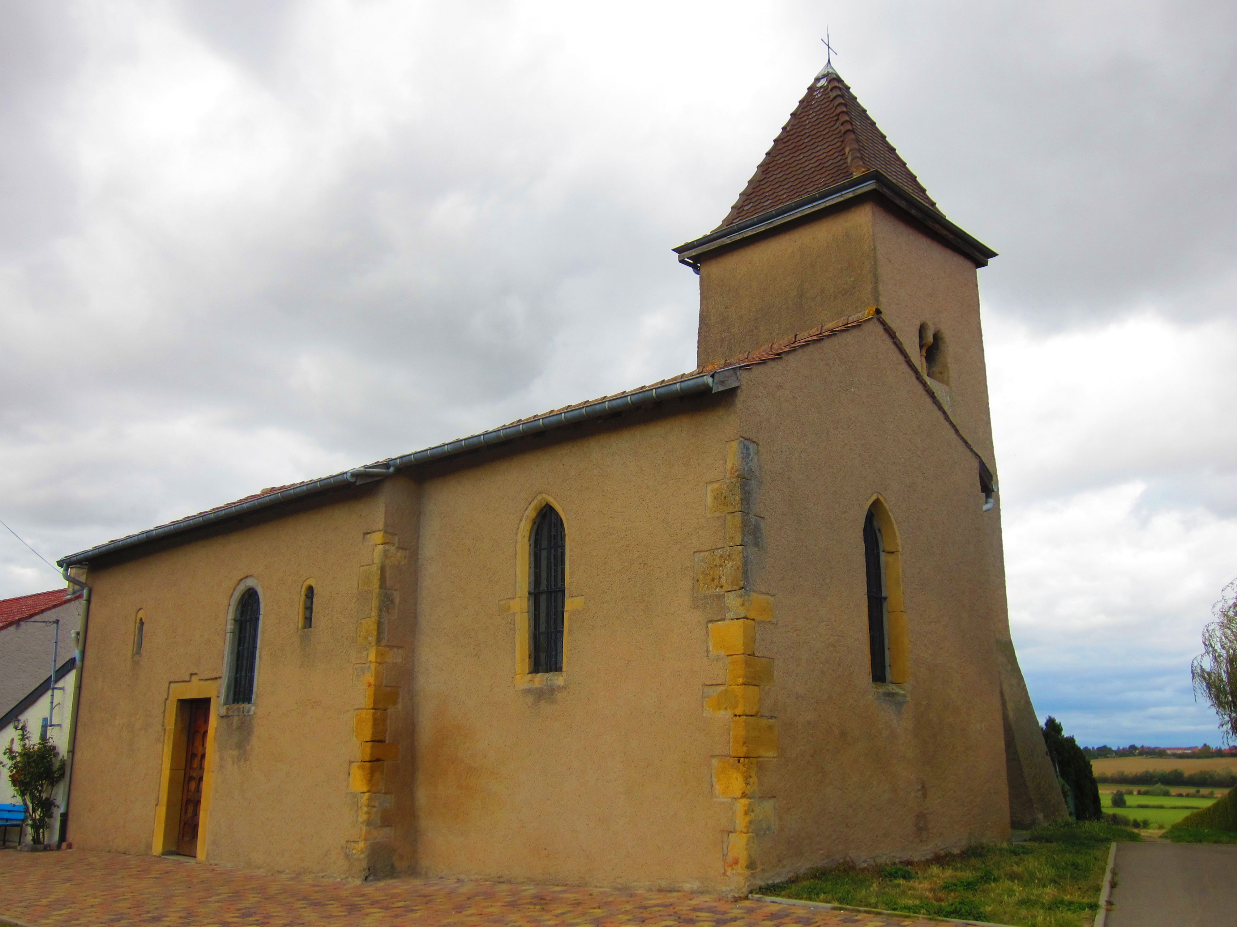 Domangeville chapel